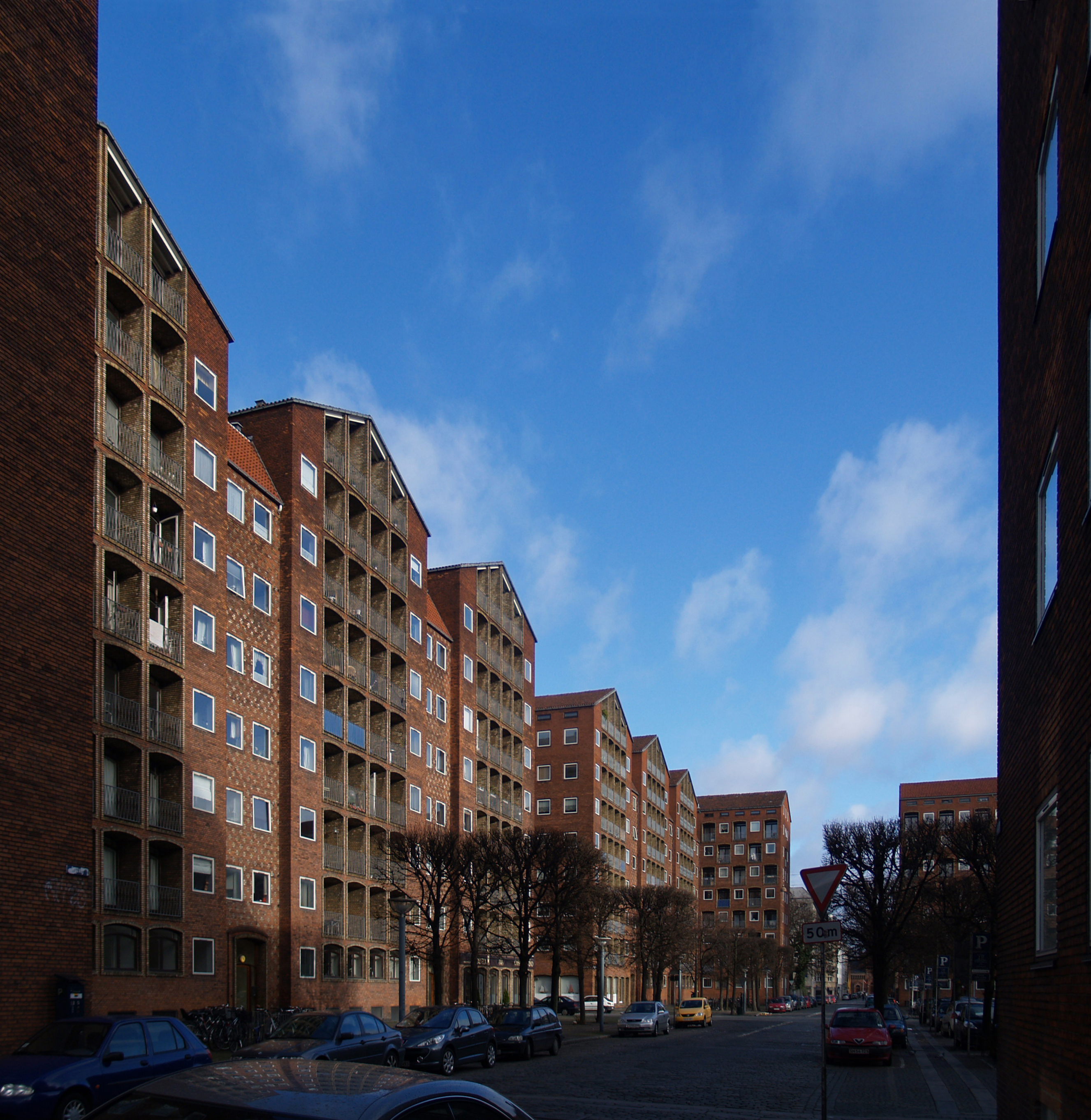 dronningegården housing, copenhagen, denmark 1943-1958. architects: kay fisker, 1893-1965, with eske kristensen and c.f. møller.